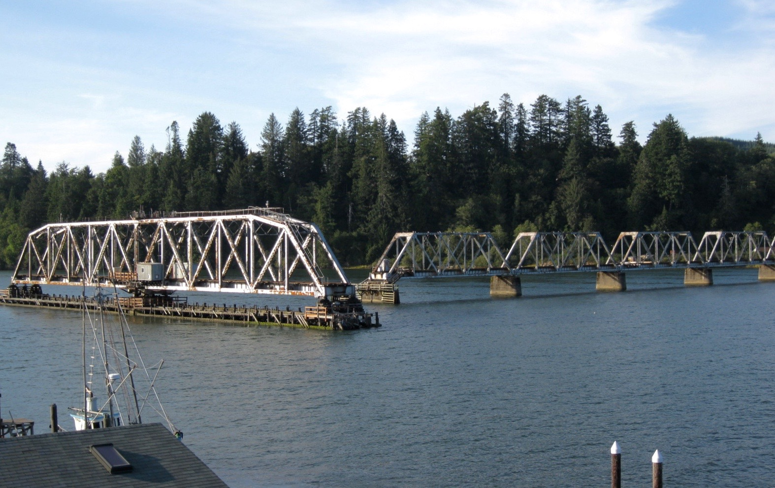 Railroad bridge across the Umpqua River, in Reedsport, Oregon, with its swing-section open for river traffic (the normal position). At the time of the photo, this section of rail line was not in use at all, having been closed in 2007 when the Central Oregon and Pacific Railroad closed its Coos Bay Branch. It was reopened in 2011 after the Port of Coos Bay acquired the line, and is now part of the Coos Bay Rail Link. The bridge was built in 1914 by the American Bridge Company.